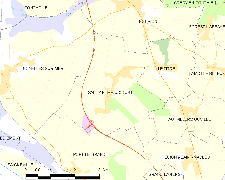 Map of French municipality Sailly-Flibeaucourt